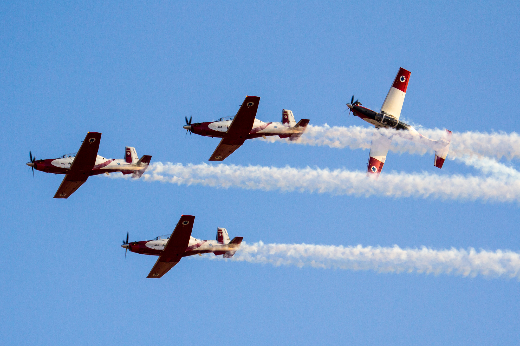 The Israeli Air Force aerobatic team, flying the T-6 Texan II, performing in Hatzerim.